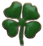 Emblem of Republican Party of Farmers and Peasants (RSZML) (1909-1938), party in Czechoslovakia.